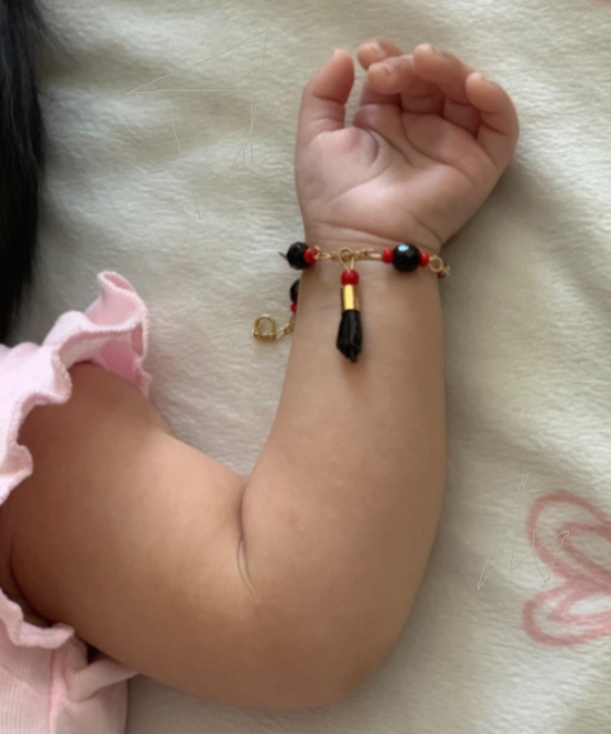 Azabache bracelet charm with a first and protruding index finger knuckle